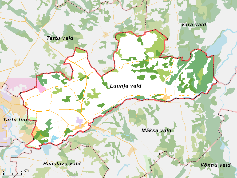 Map of municipality in Estonia